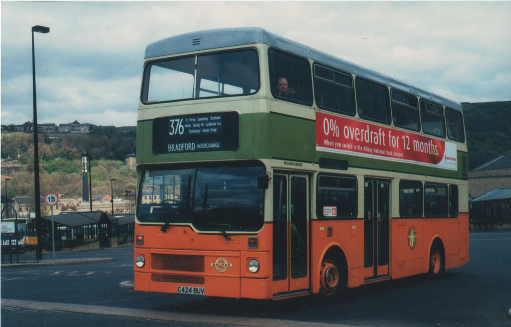 Halifax Joint Committee - MCW Metrobus - M1424 C424 BUV